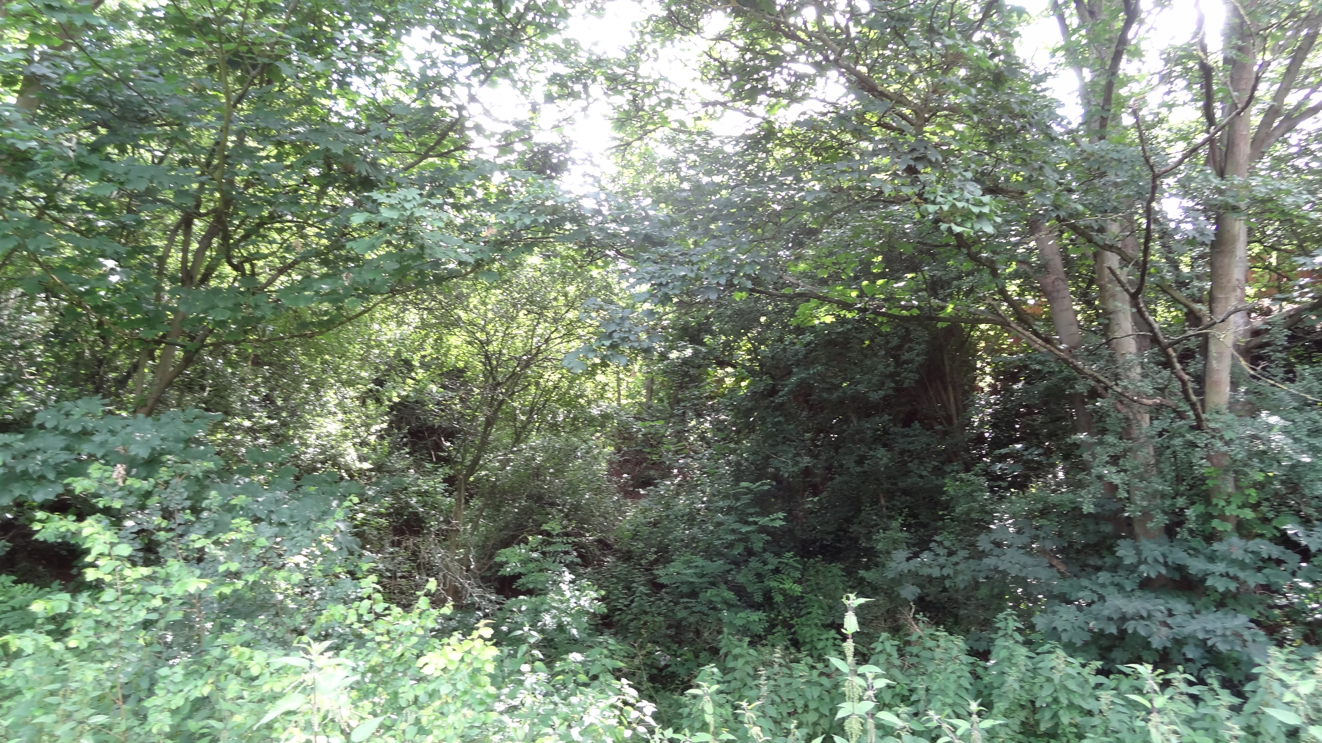 Wansunt Pit, geological SSSI in Dartford, Kent and Bexley, London